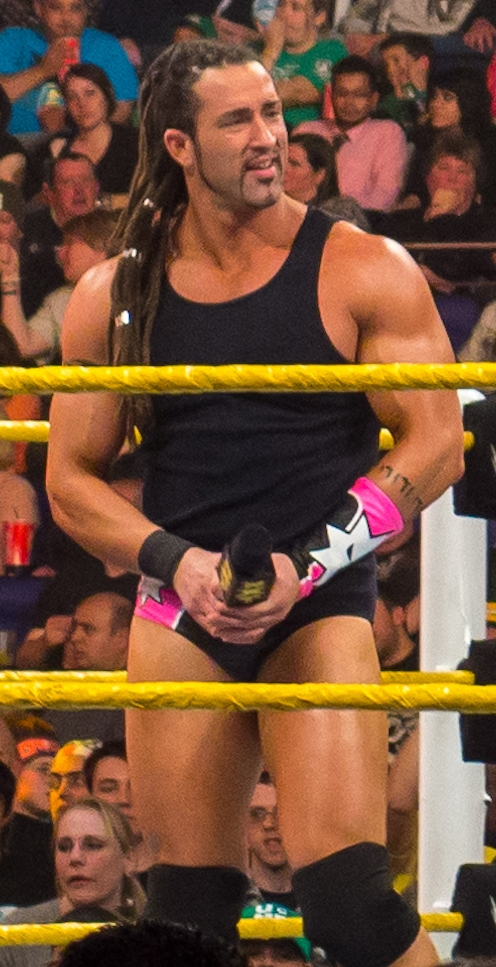 Professional wrestler Tyler Reks, during a WWE NXT event in 2012